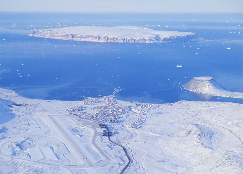 Aerial picture of Thule Air Base released by US gov. uploaded to English Wikipedia: 07:46, 18 July 2005 . . Ann O'nyme . . 800x571 (93558 bytes) (Aerial Picture Of Thule